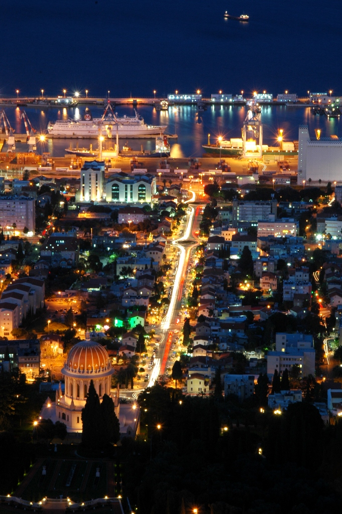 The city of Haifa at night